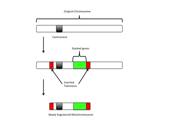 Use of telomeres to engineer minichromosomes